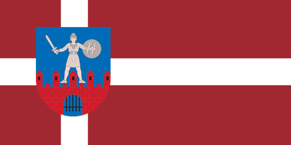 Flag of Cēsis. The crimson color is that of Latvian flag, because according to medieval chornicles Latvian flag was oroiginaly used by Cēsis people. White cross stands for Christianity, crosroads and faith for good future. The coat of arms symbolizes the city itself